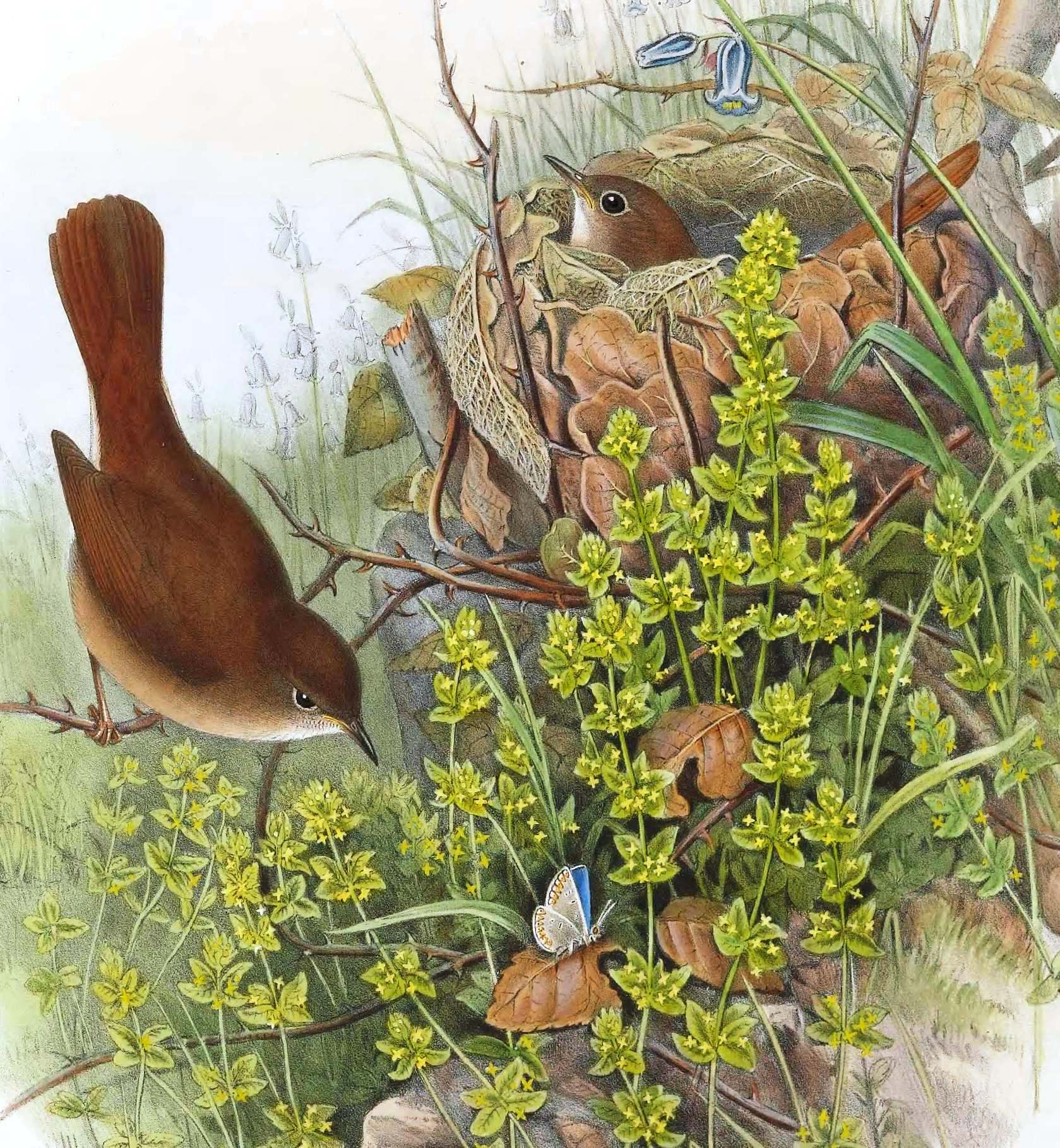 Luscinia megarhynchos. John Gould. The birds of Great Britain